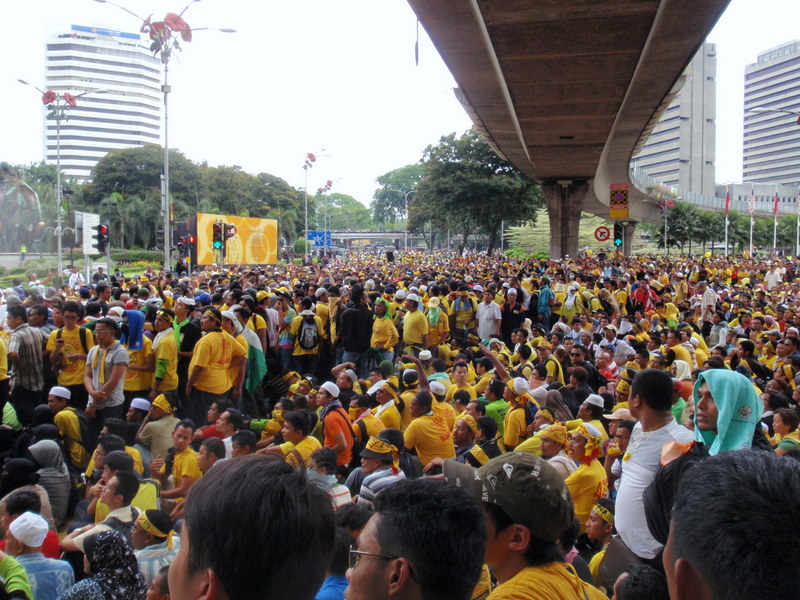 tenths of thousands Bersih 3.0 supporters came together